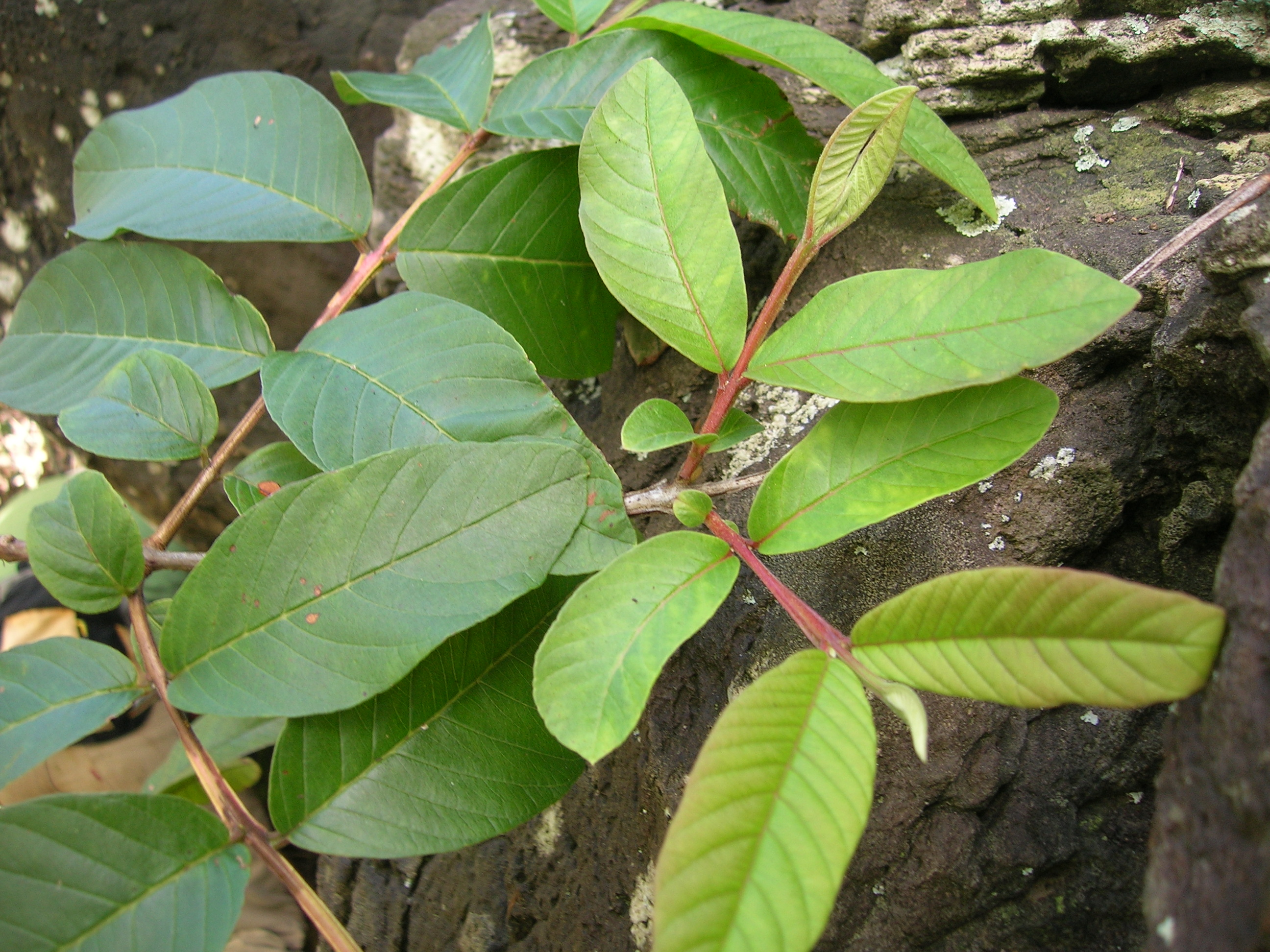 Psidium guajava (habit). Location: Oahu, Mokolii